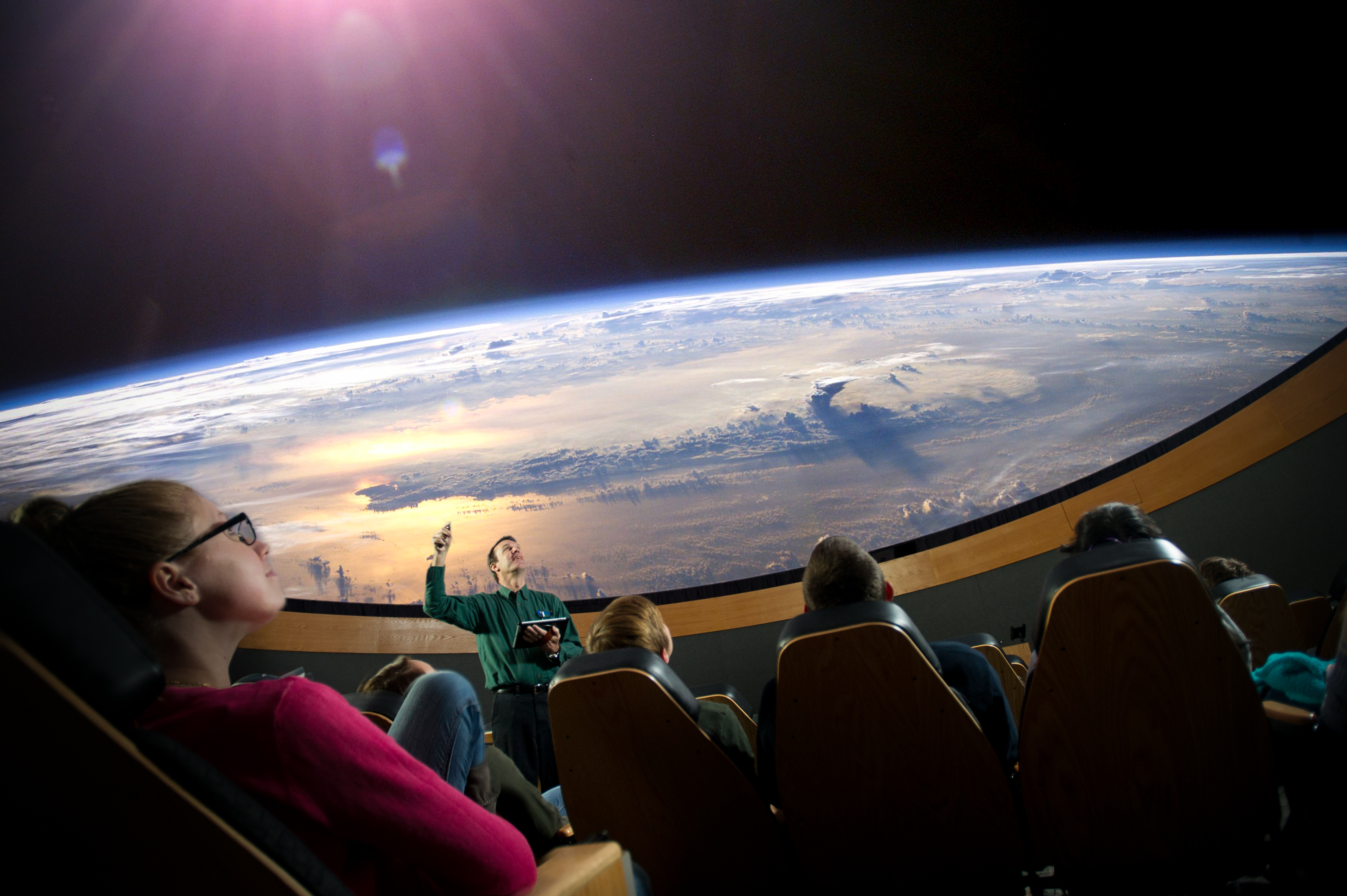 14022-Planetarium -3245-Edit.jpg Texas A&M University–Commerce Planetarium